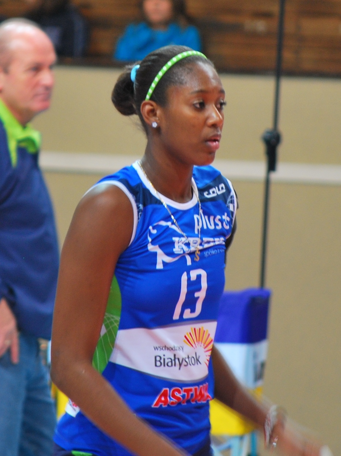 Sinead Jack, volleyball player from Trinidad & Tobago